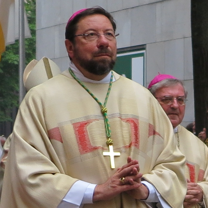 Bishop Jean-Pierre Delville (Diocesan bishop of the Roman Catholic Diocese of Liège)